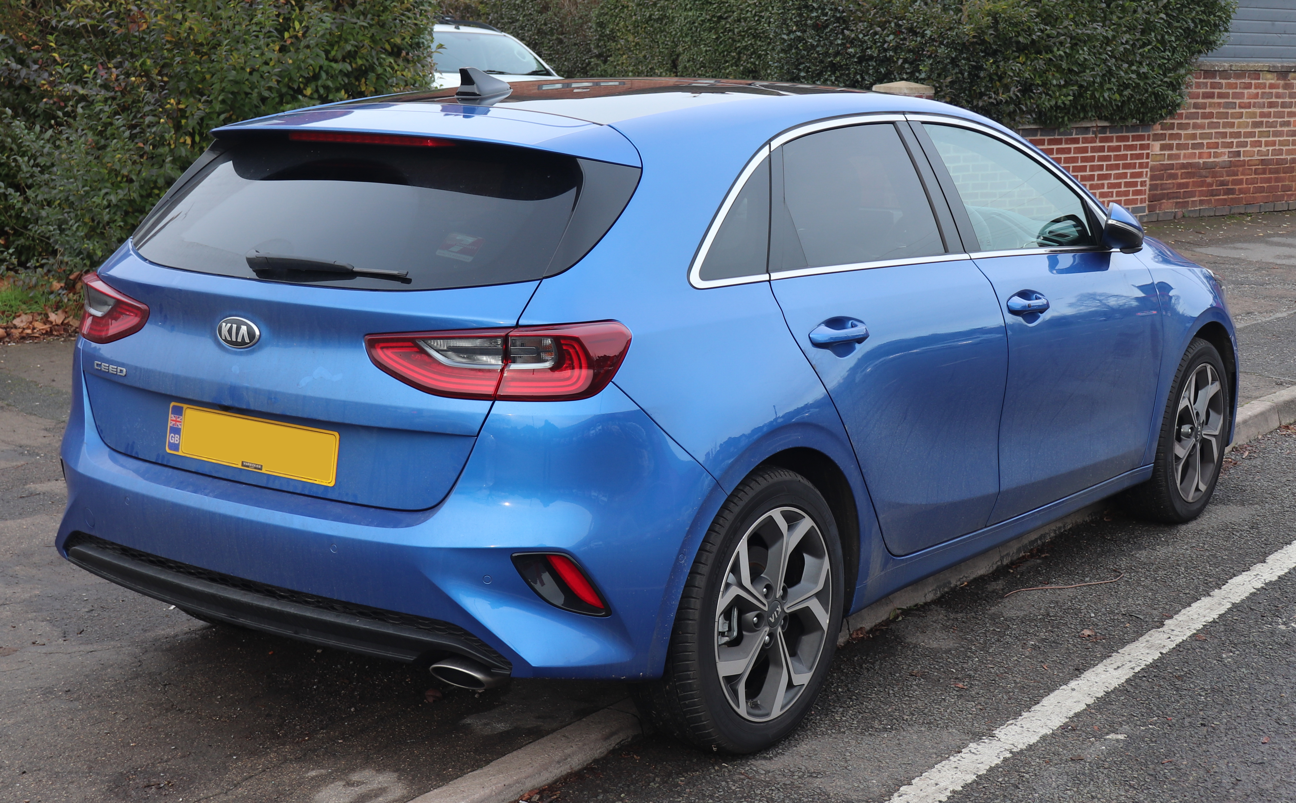 2018 Kia Ceed First Edition ISG 1.3 Rear